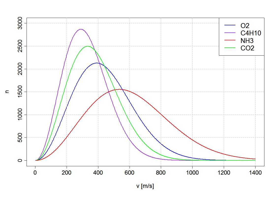 Maxwell Molecular Speed Distribution of a few gases at a temperature of 293.15 K. Picture shows number (n) particles per million (10^6) which have determined speed (v[m/s]). Purple colour represents butane (C4H10). Blue colour represents oxygen (O2). Green colour represents carbon dioxide (CO2) Red colour represents ammonia (NH3).